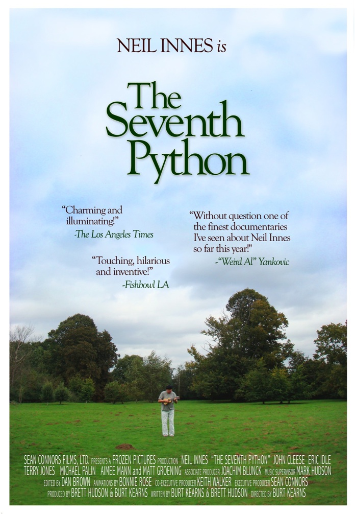 Poster for the Frozen Pictures documentary, The Seventh Python, about the life and work of Neil Innes